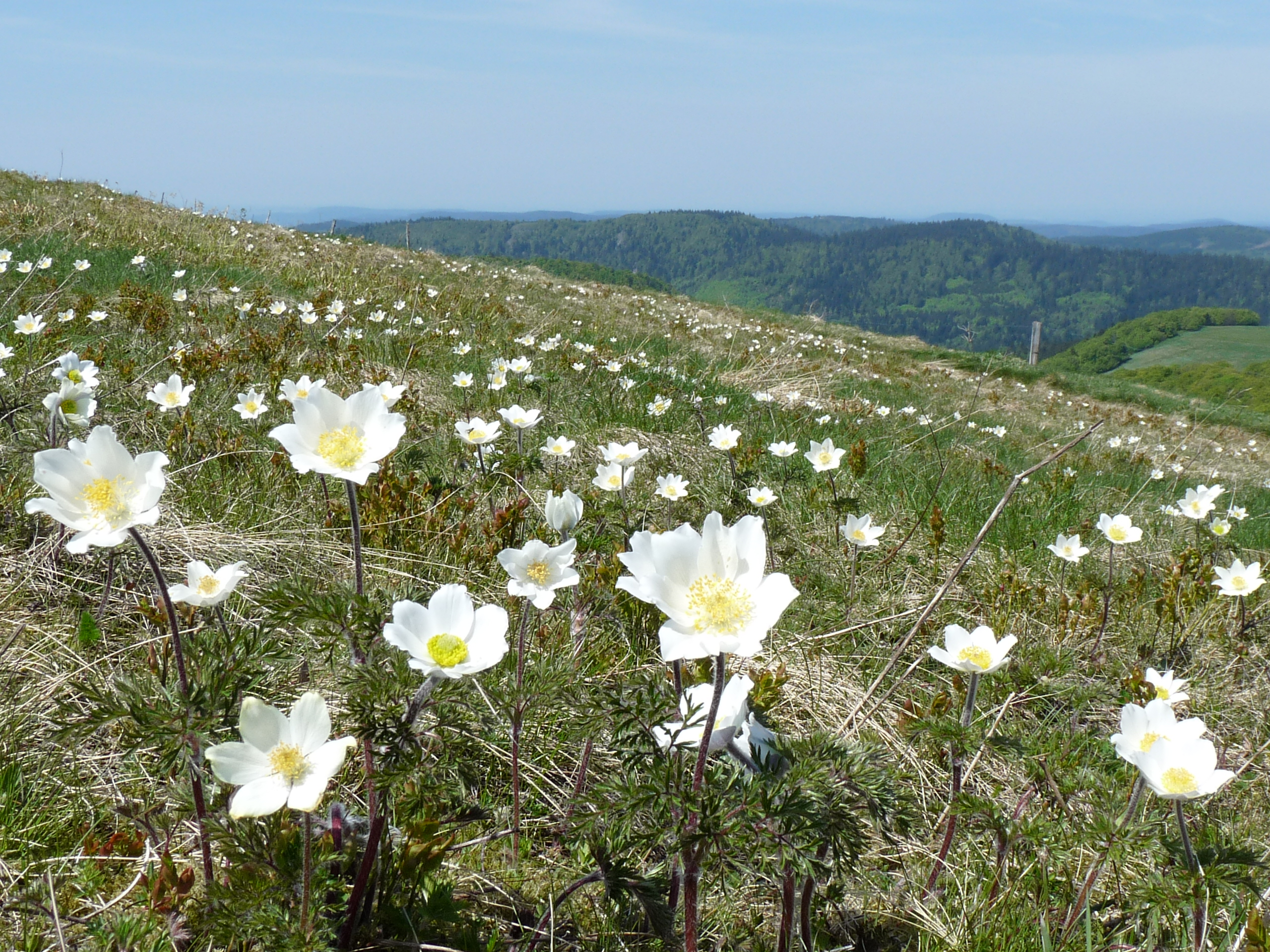 Pulsatilla alba. Photo taken on Kastelberg, Vosges (France).